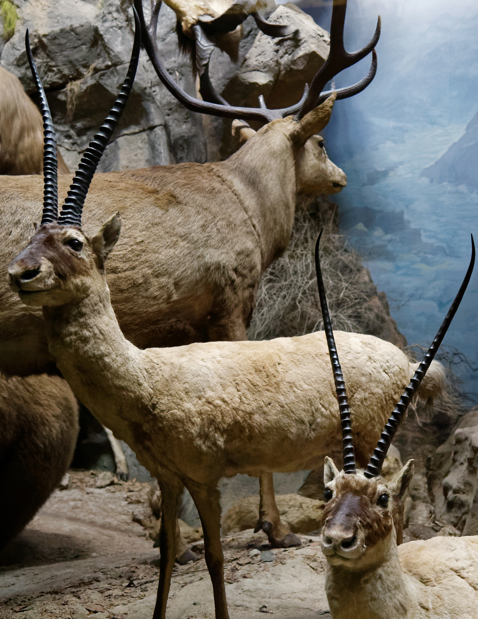 Diorama taxidermy, including Tibetan antelope or chiru Pantholops hodgsonii, a bighorn sheep Ovis canadensis, and a deer stag Cervus elaphus, at the Powell-Cotton Museum of Quex Park in the civil parish of Birchington in Kent, England.Camera: Canon EOS 6D with Canon EF 24-105mm F4L IS USM lens.Software: large RAW file lens-corrected, optimized and downsized with DxO OpticsPro 10 Elite, Viewpoint 2, and Adobe Photoshop CS2.